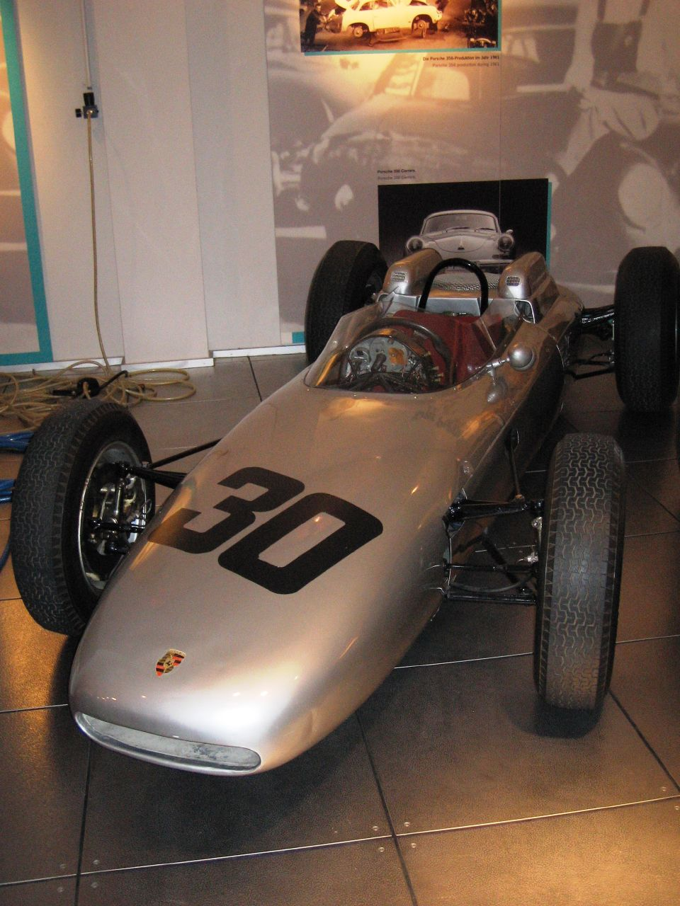 Porsche 804 No. 30 - Dan Gurney Porsche Museum Native namePorsche-MuseumLocationStuttgartCoordinates48° 50′ 07″ N, 9° 09′ 06″ E Established1976 (old museum) 2009 (new museum)Web page control : Q328623 VIAF: 138511768 GND: 2087859-X SUDOC: 155641123